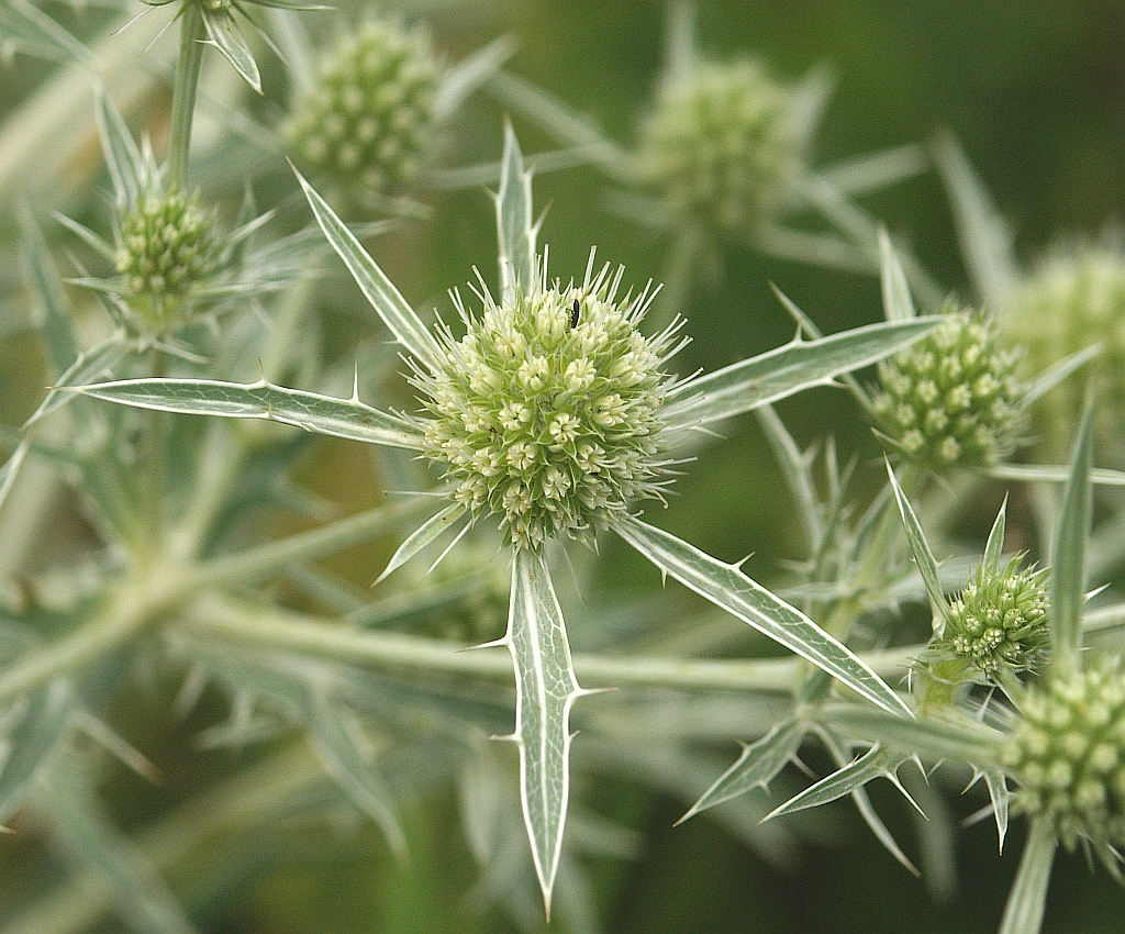 Eryngium campestre, Tauberland, Germany